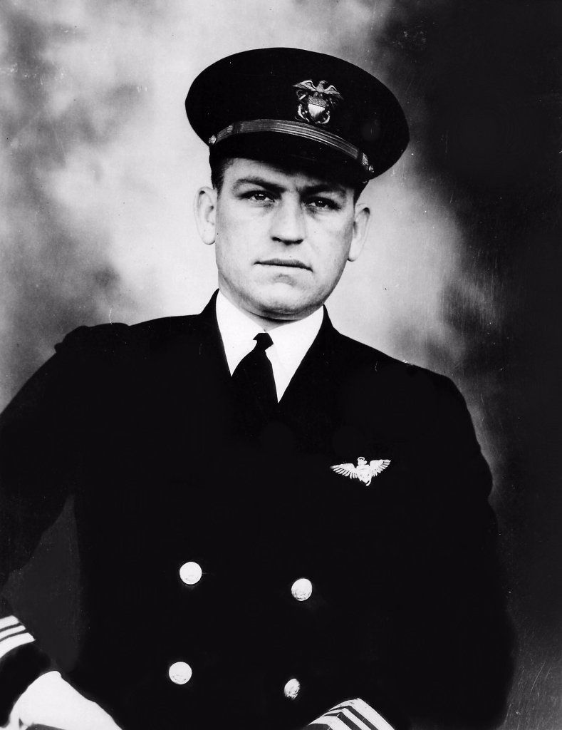 Bertram Joseph Rodgers (March 18, 1894 – November 30, 1983) was a highly decorated Vice Admiral in the United States Navy during World War II. He received his Navy Cross as a Captain of USS Salt Lake City in the battle of the Komandorski islands, during the Aleutian Islands Campaign. Rodgers later served as Commander, Amphibious Forces, Pacific Fleet, Commandant, 12th Naval District in San Francisco or Commander, U.S. Naval Forces Germany. He completed his career as President, Permanent General Court Martial in 1956.